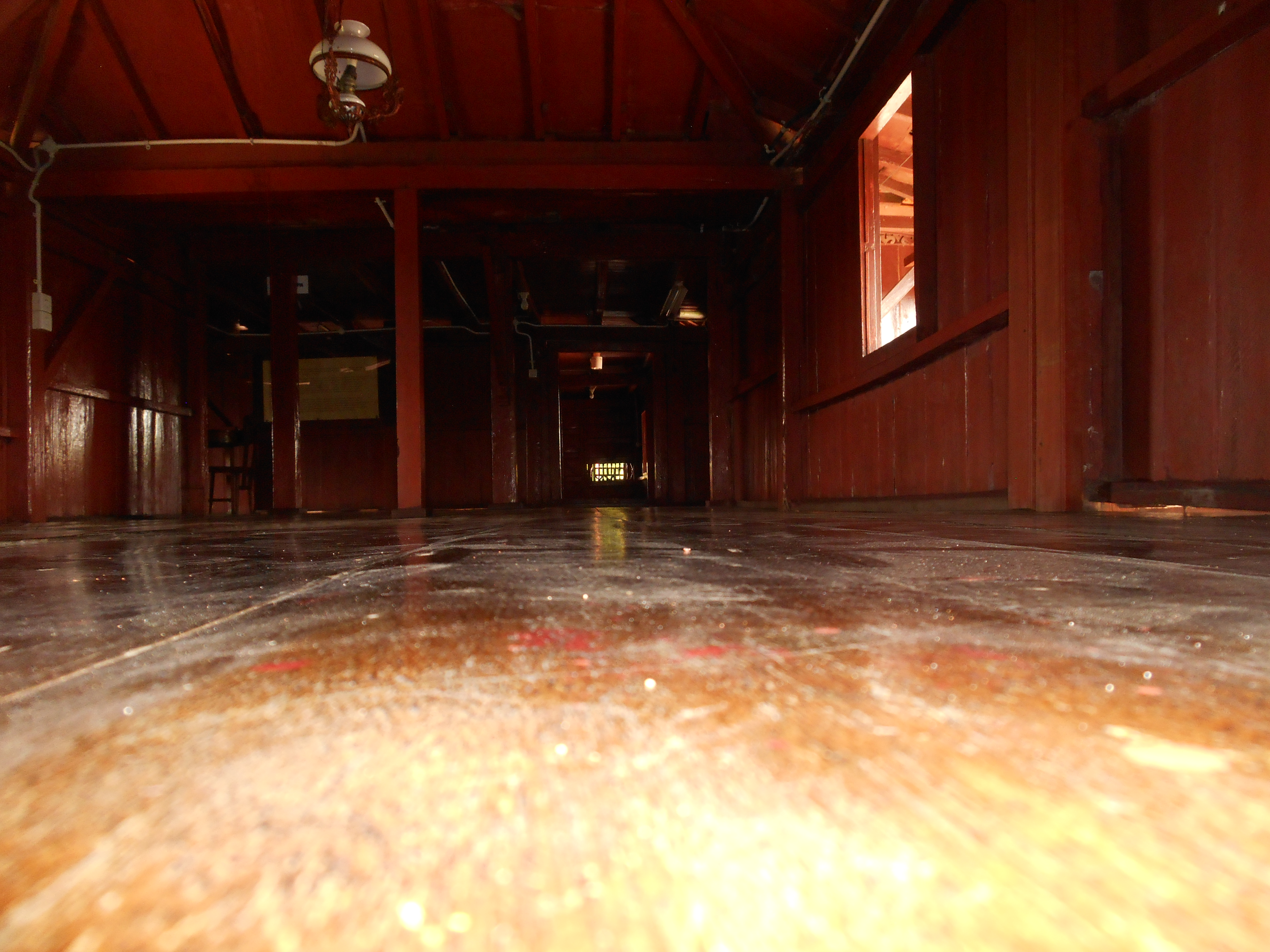 Lantai kayu rumah si Pitung